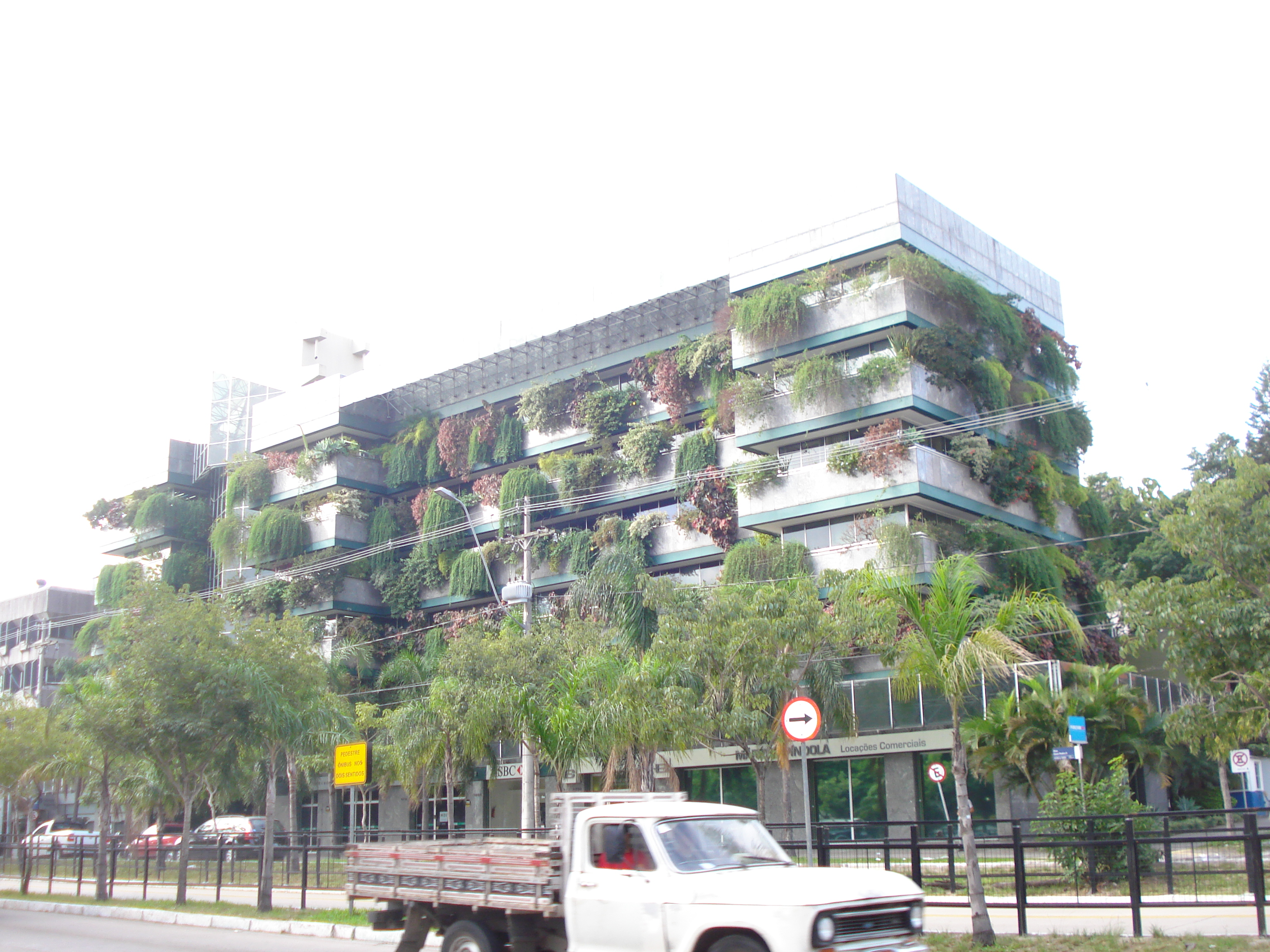 A commercial building in Dom Pedro II Avenue, in Porto Alegre City, Brazil.